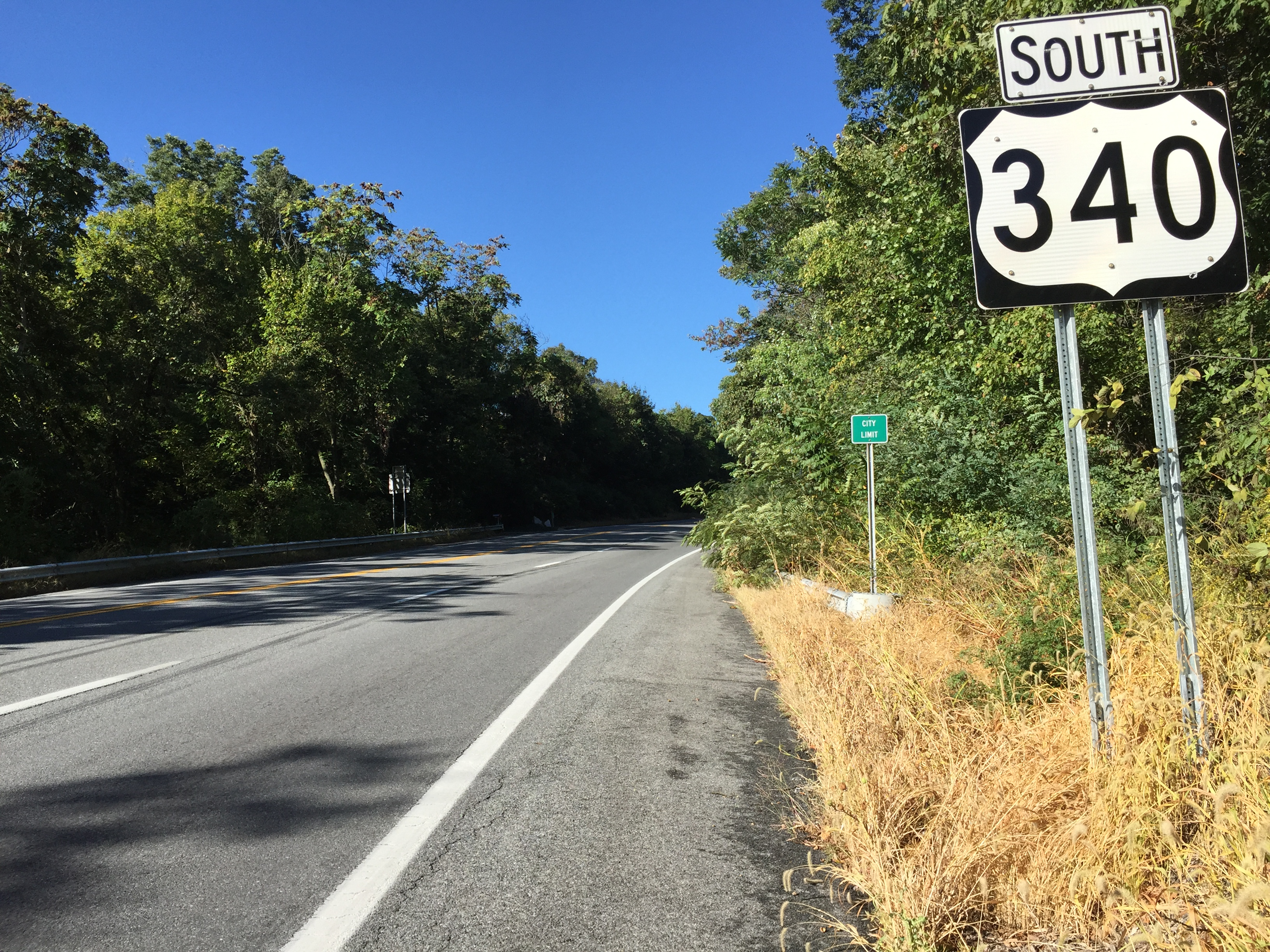 View south along U.S. Route 340 (William L. Wilson Freeway) between Union Street and U.S. Route 340 Alternate (Washington Street) in Bolivar, Jefferson County, West Virginia